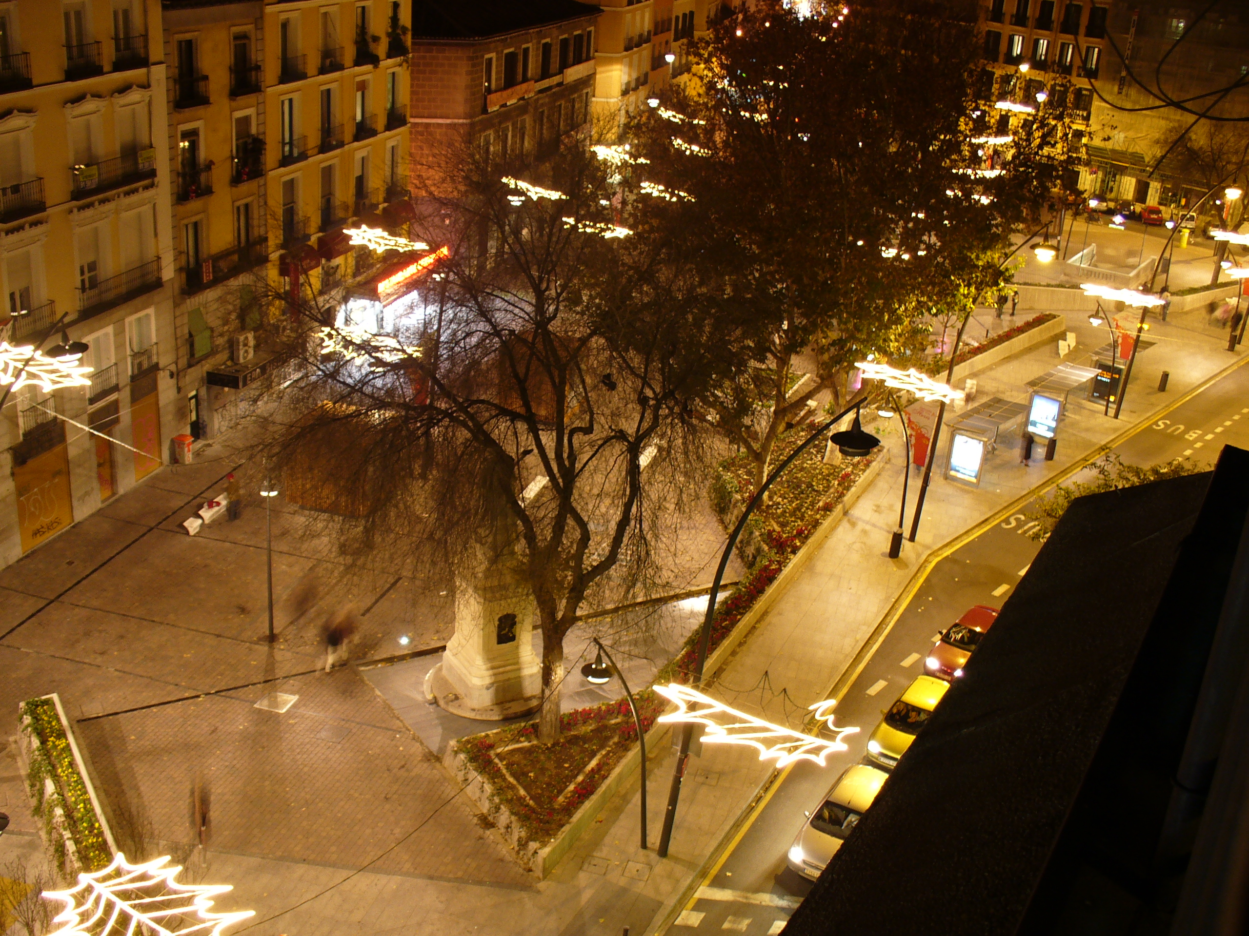 Night view of Plaza de Tirso de Molina (square) in Madrid (Spain).